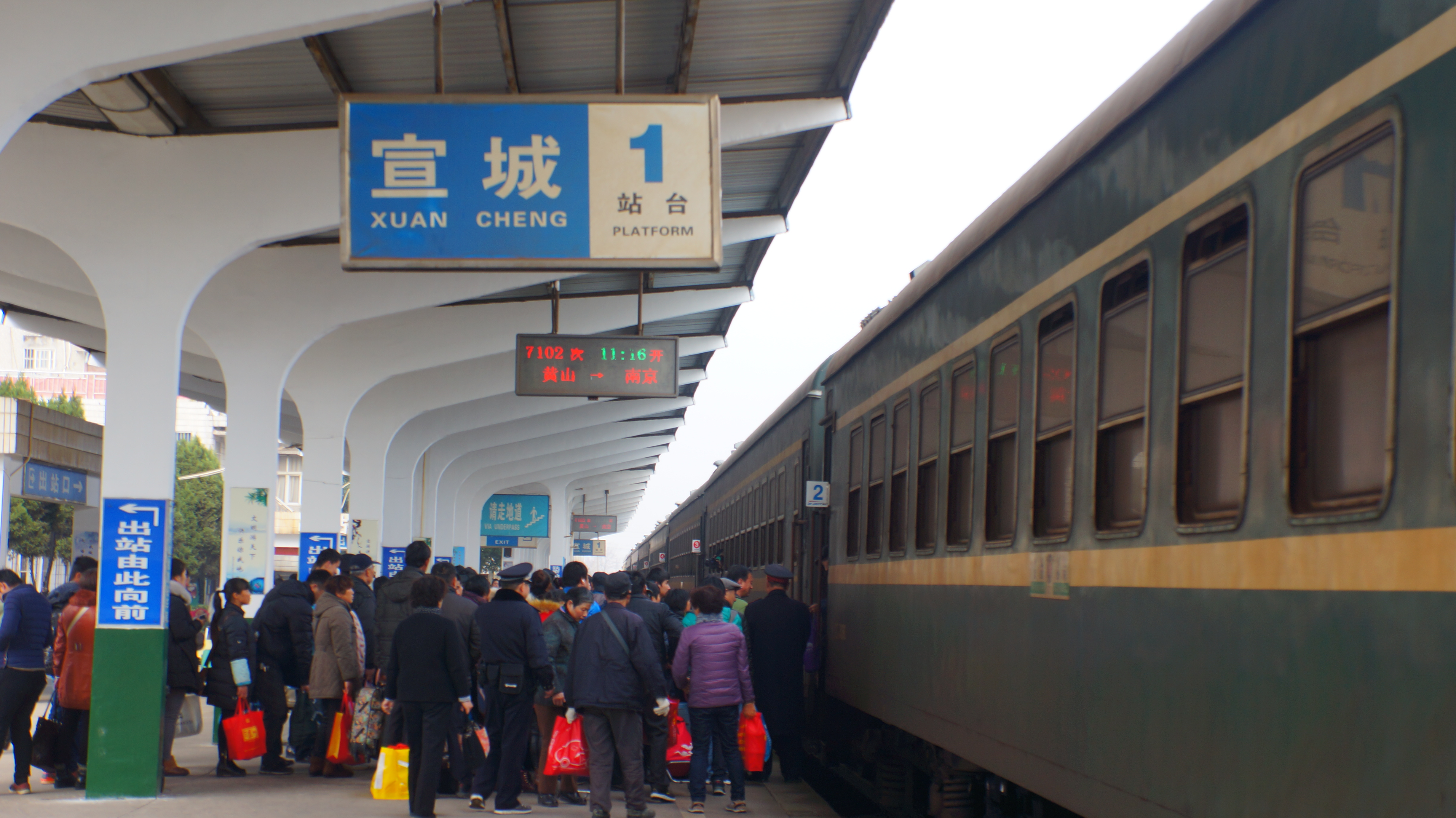 201601 Xuancheng Railway Station